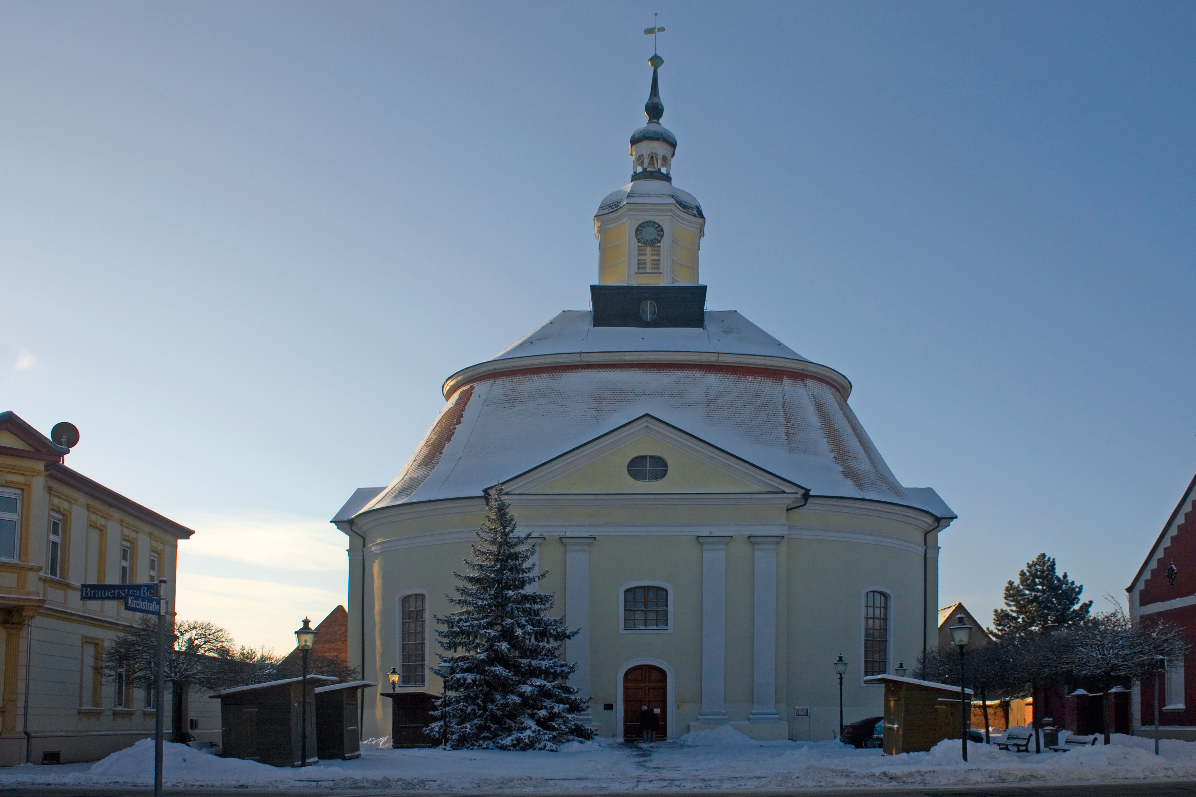 Oranienbaum (Germany), Protestant church